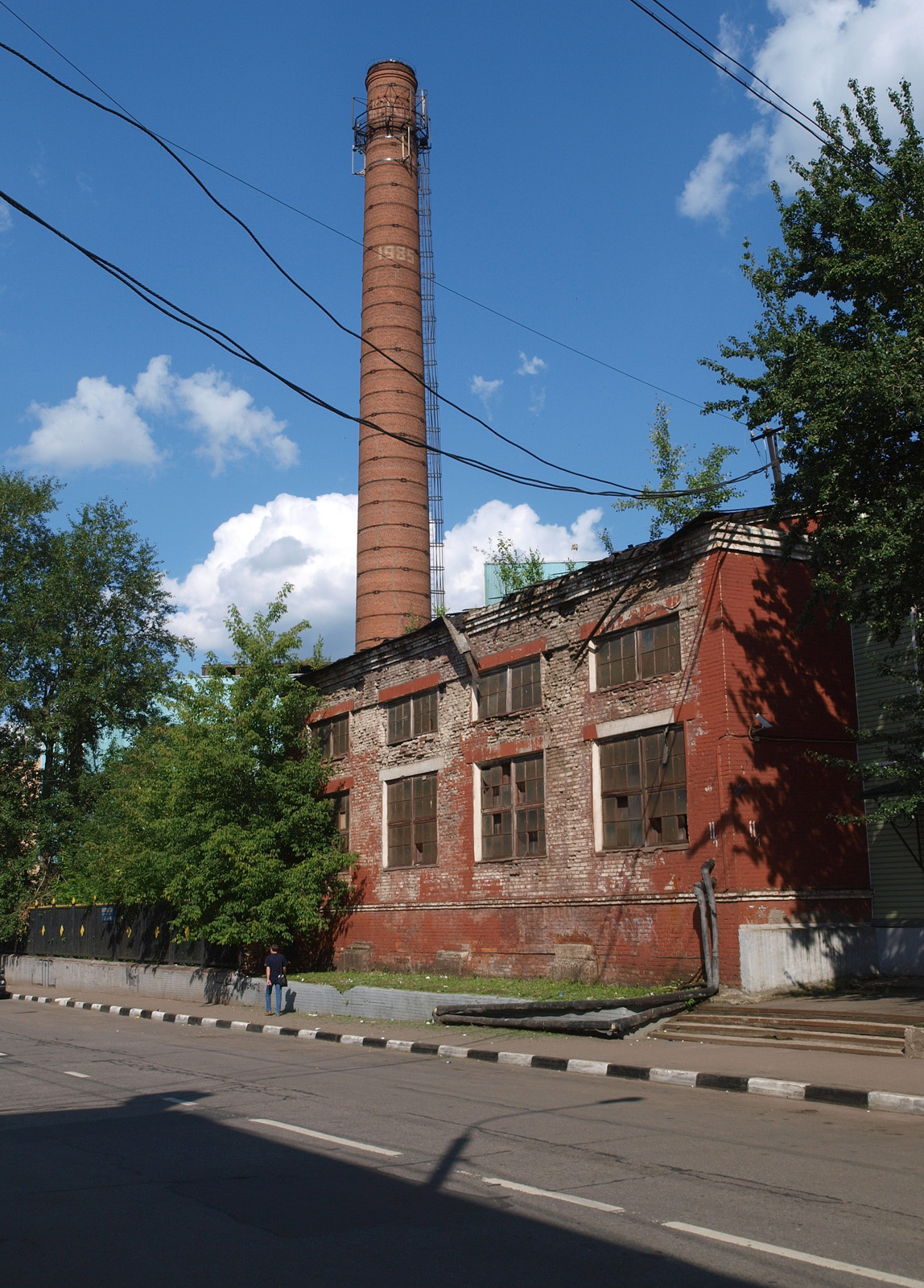 Zolotorozhsky Val Street, Moscow - Serp i Molot mills